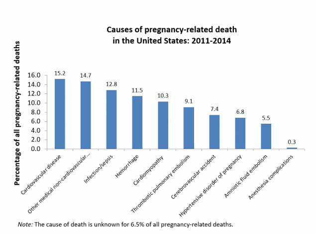 This figure shows the top causes of pregnancy related deaths in the United States from 2011-2014.